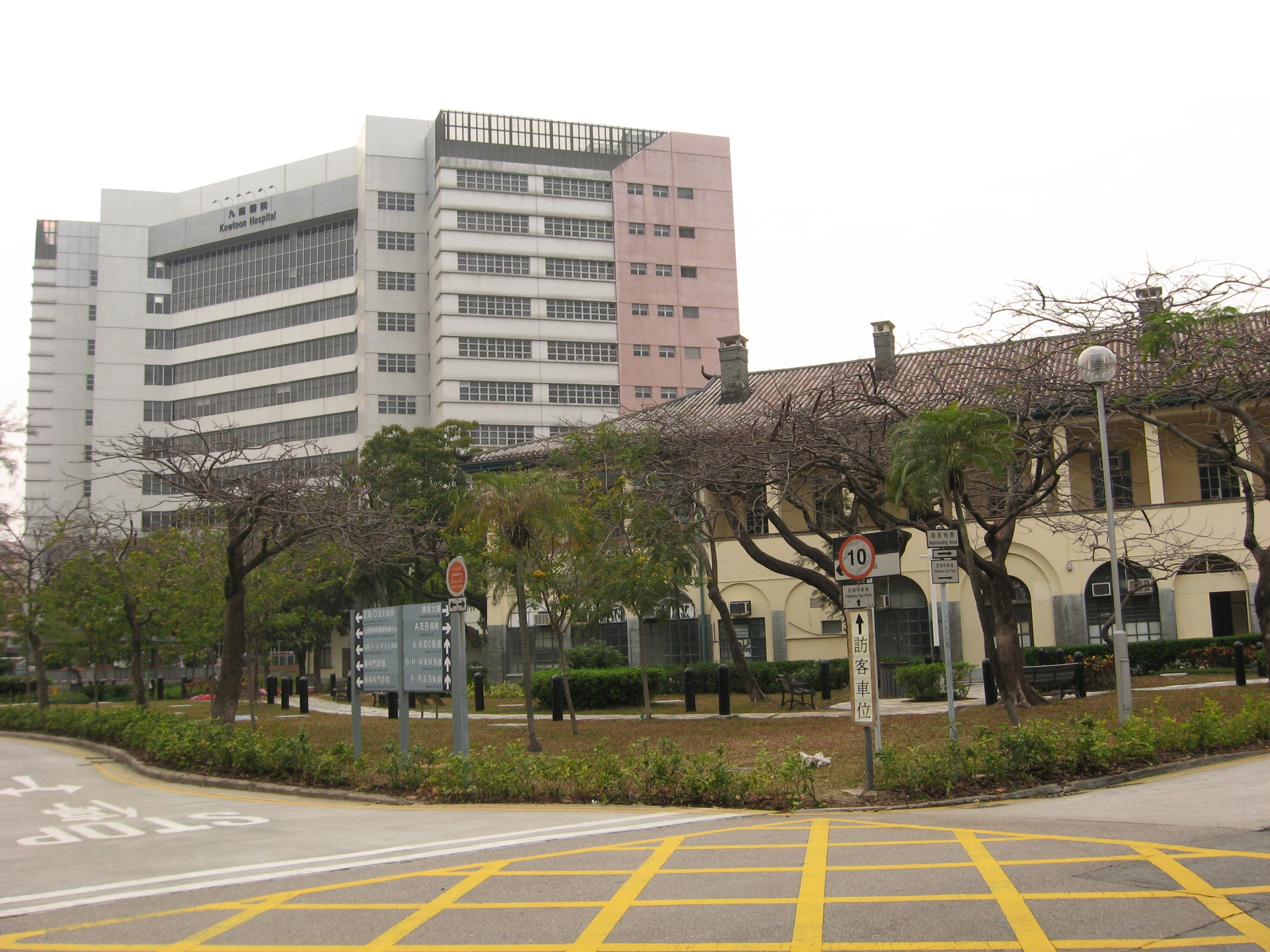 Kowloon Hospital